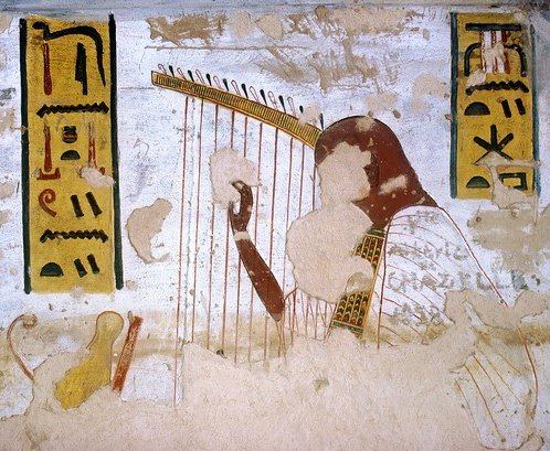 Harper playing [before Shu and Atum], scratched with graffito. Scene from tomb of Ramses III. (KV11)